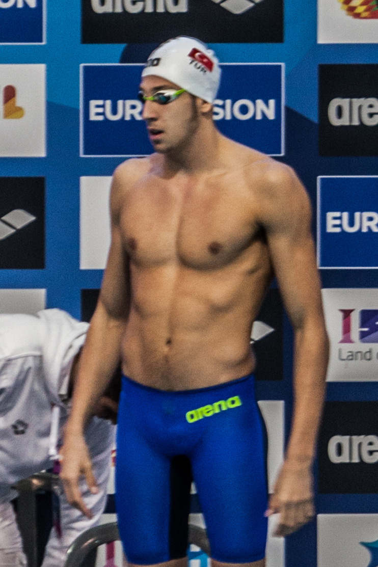 Swimmer Hüseyin Emre Sakçı at the 2015 European Short Course Swimming Championships in Netanya